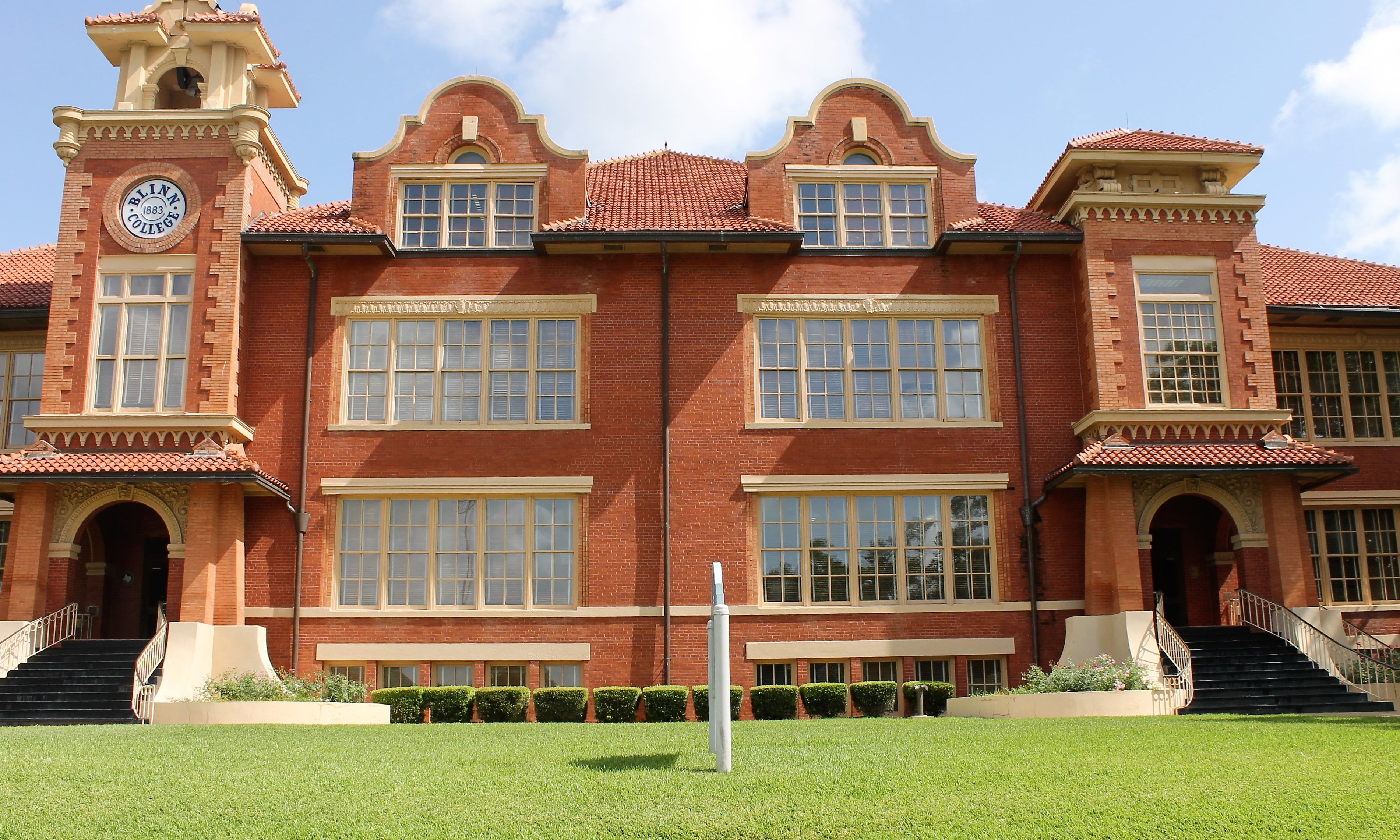 Historic Old Main Building, built in 1909, at Blinn College in Brenham, TX